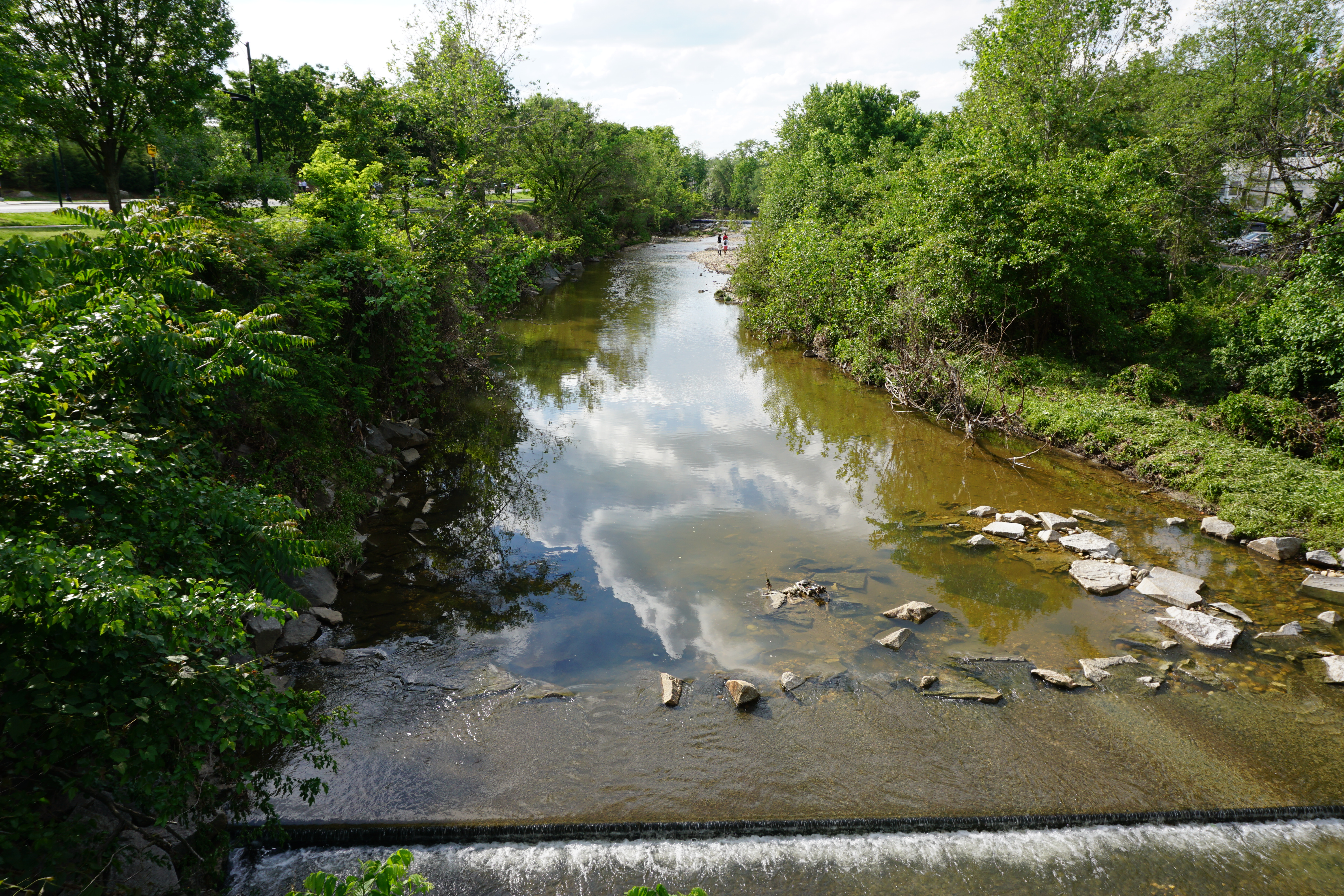 Looking west along Four Mile Run stream from the South Nelson Street footbridge near 2800 South Nelson Street, Arlington, Virginia.